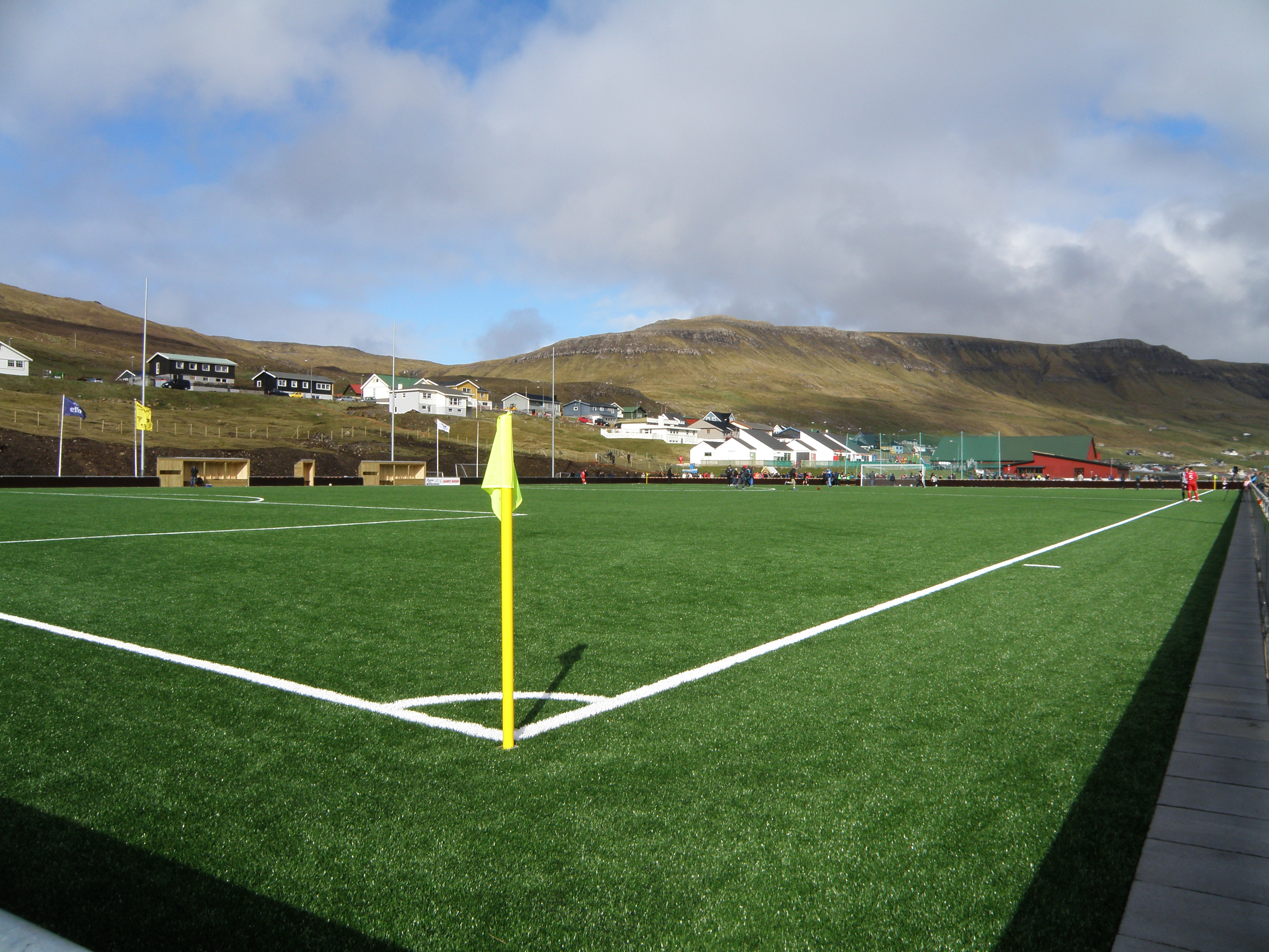 On 29 April 2012 TB Tvøroyri had an opening ceremony celebrating their new football field in Trongisvágur, Faroe Islands. They have not had a home field in Tvøroyri or Trongisvágur since October 2010, when TB Tvøroyri played their last match on Sevmýri, which is a few kilometers further east of this new field. In 2011 they had their home field in Hvalba (a village north of Tvøroyri), at that time they were playing in the second best division, but they got promoted and the first matches which they played in 2012 were played on Eiðinum in Vágur, a neigbour village south of Tvøroyri. TB Tvøroyri has named their new football field "Við Stórá". "Við" means by, Stór means large or grand, á means river: "Grand River Football Field" or Football field by the Grand River. At first they said that they might call it "Í Stópunum", but finally they chose to call it "Vøllurin við Stórá" (vøllurin means the field). TB played their first match in the men's Premier League (Effodeildin) just after the ceremony, they played against ÍF Fuglafjørður and won 1-0. Føroyskt: Fótbóltsvøllurin við Stórá. Vøllurin við Stórá er heimavøllurin hjá TB. Vøllurin var tikin alment í nýtslu 29. apríl 2012, tá TB hevði heimavøll í bestu mansdeildini móti ÍF. TB vann dystin 1-0. Henda myndin er tikin beint eftir dystin. Hátíðarhald varð hildið inni í ítróttarhøllini, tað byrjaði 45 minuttir áðrenn dysturin byrjaði. Har vóru røður hildnar og Tvøroyrar Hornorkestur spældi. Ein 88 ára gamal fyrrverandi TB leikari, Kristian Olsen, sum er føddur og uppvaksin á Tvøroyri, og sum seinni giftist til Porkeris, slapp at sparka fyrsta sparkið, áðrenn dysturin byrjaði.